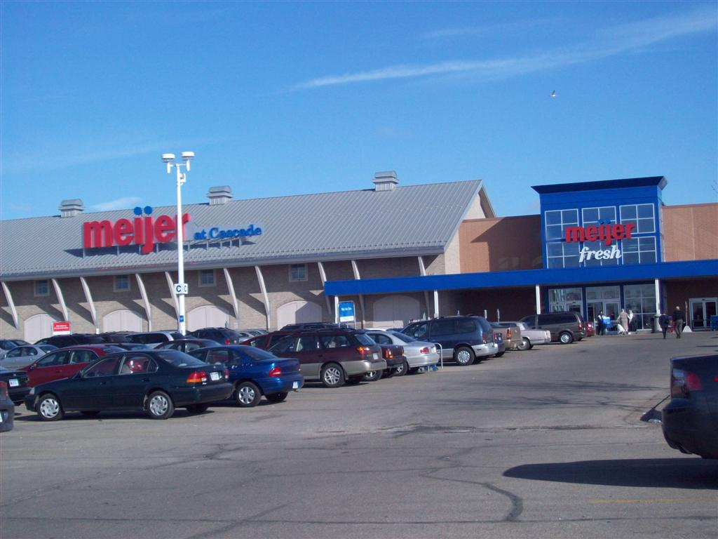 Meijer at Cascade, featuring Meijer Fresh.